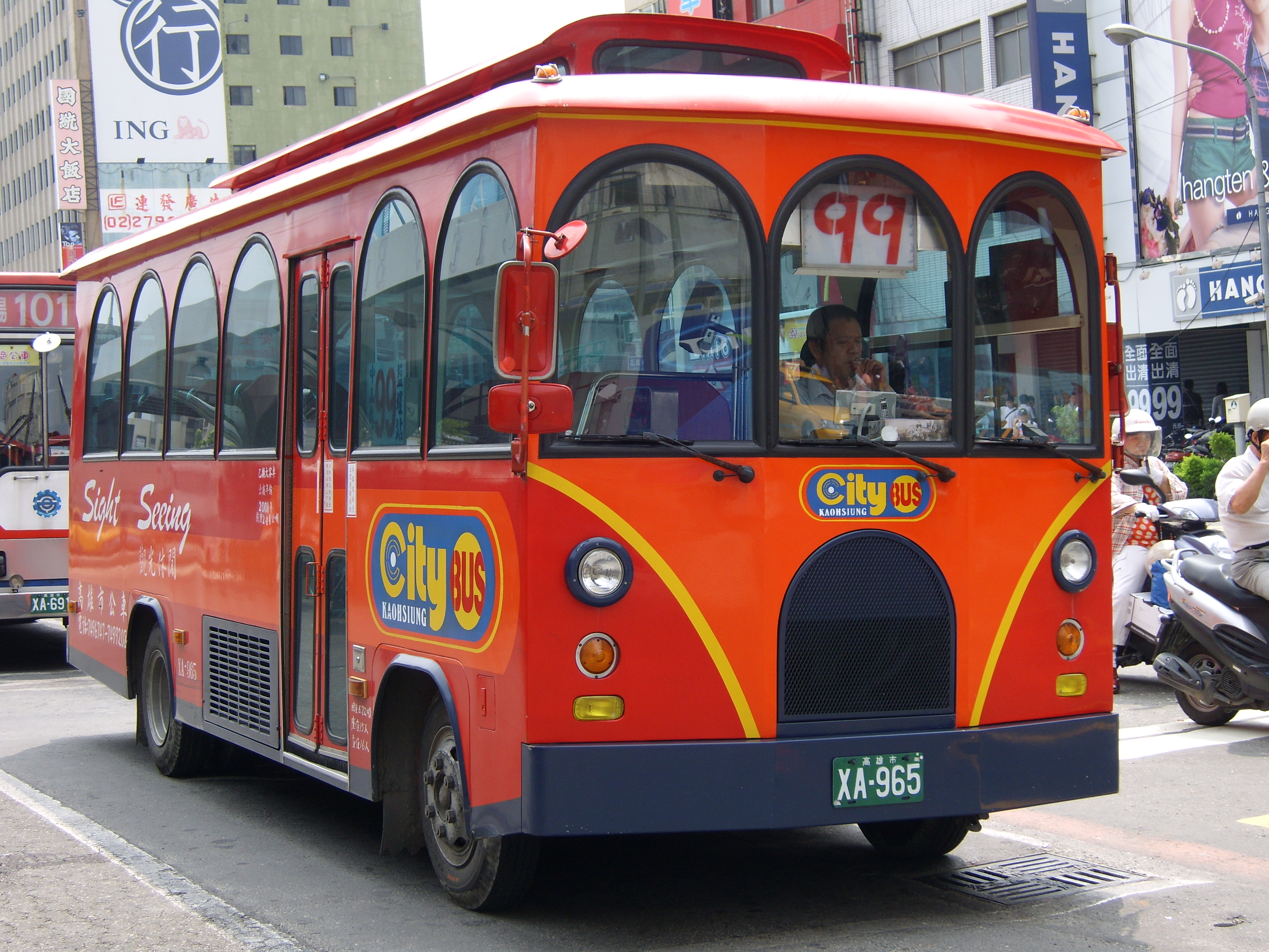 A Isuzu NQR bus by Kaohsiung City Bus Department.